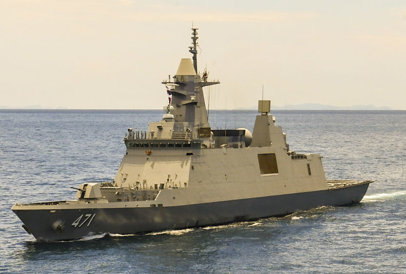 190606-N-QD718-0046 GULF OF THAILAND (June 6, 2019) – The Royal Thai Navy (RTN) DW 300F-class multi-role stealth frigate HTMS Bhumibol Adulyadej (FFG 471) sails in formation during a Division Tactics (DIVTACS) exercise with ships from the U.S. and Royal Thai Navies as part of Cooperation Afloat Readiness and Training (CARAT) Thailand 2019. This year marks the 25th iteration of CARAT, a multinational exercise series designed to enhance U.S. and partner navies’ abilities to operate together in response to traditional and non-traditional maritime security challenges in the Indo-Pacific region. (U.S. Navy photo by Mass Communication Specialist 1st Class Toni Burton)